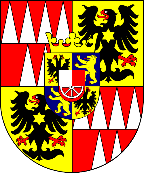 Coat of arms (shield only) of Ferdinand Maria Chotek, bishop of Tarnów, Poland (1831 - 1832), archbishop of Olomouc, Czech republic (1832 - 1836).